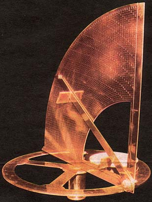 Original nonius